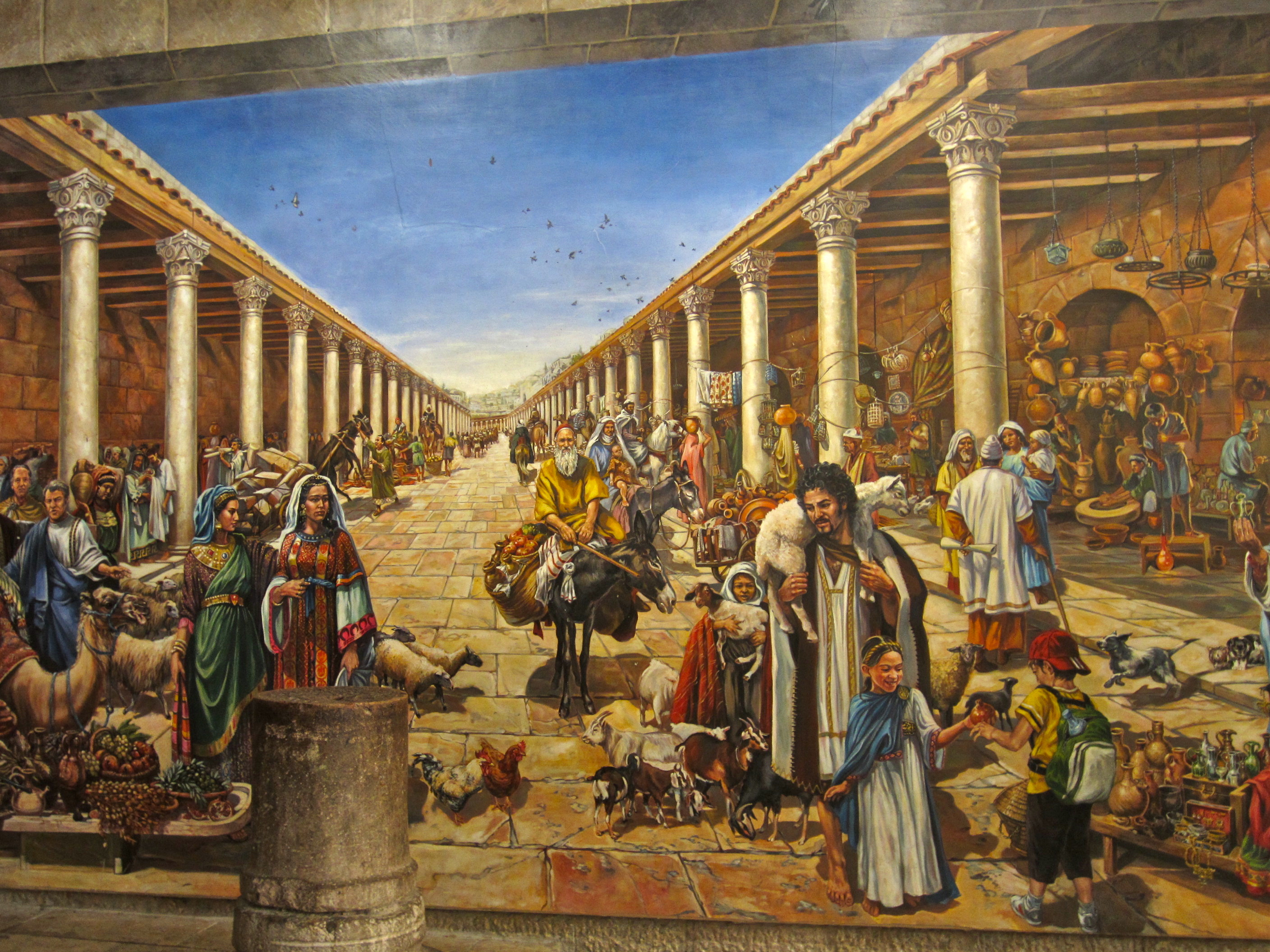 Wall mural in the Cardo Maximus of Jerusalem depicts how the Cardo might have looked in the Byzantine period. The three people pictured in the left-hand corner are the former mayor Teddy Kollek, archaeologist Nachman Avigad who excavated the area, and the artist. Note the fresco also includes a painting of a young boy in modern dress (lower right).The Cardo - A Colorful Piece of Roman Civilization in Jerusalem's Old City